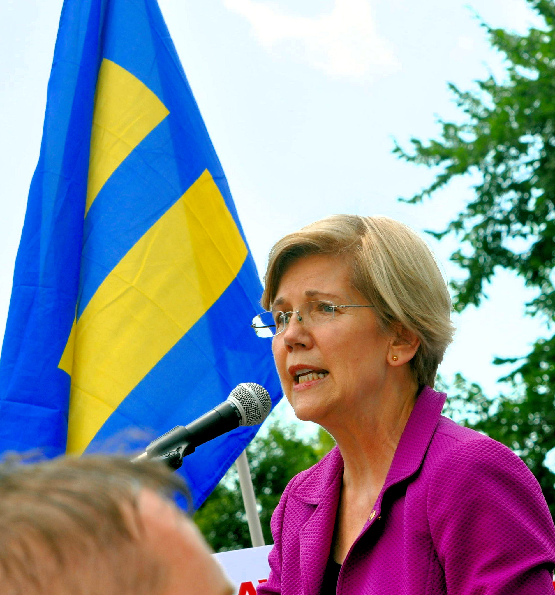 Rally at US Sen 0221 Senator Elizabeth Warren